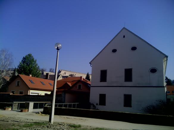 Former Little Synagogue in Eger